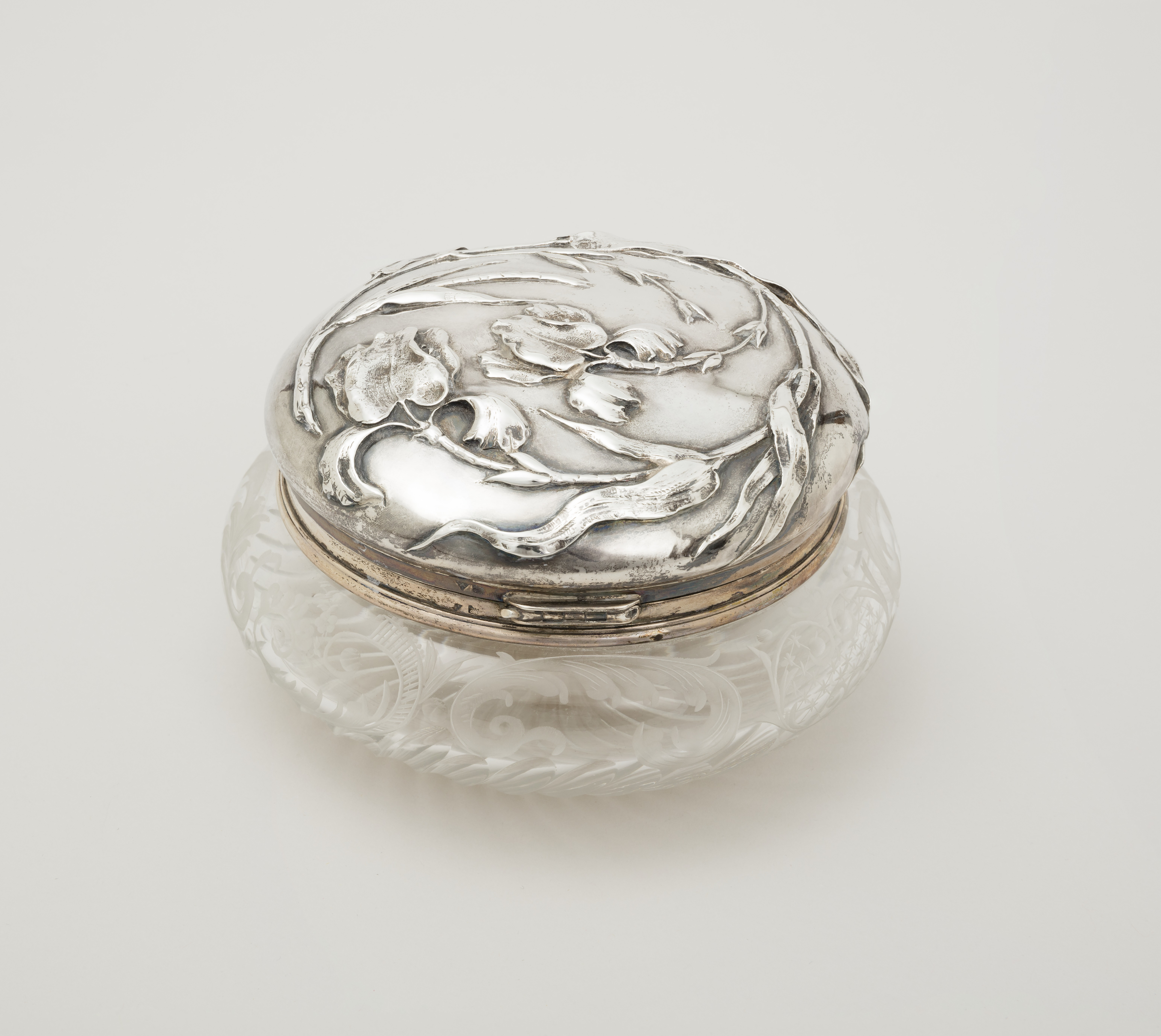 Glass bowl with curved sides, the bottom part spiral fluted, the sides engraved with leafy c-scrolls. Mounted in silver band to which is hinged the silver repousse cover, with two iris in high relief. Inside gilded.